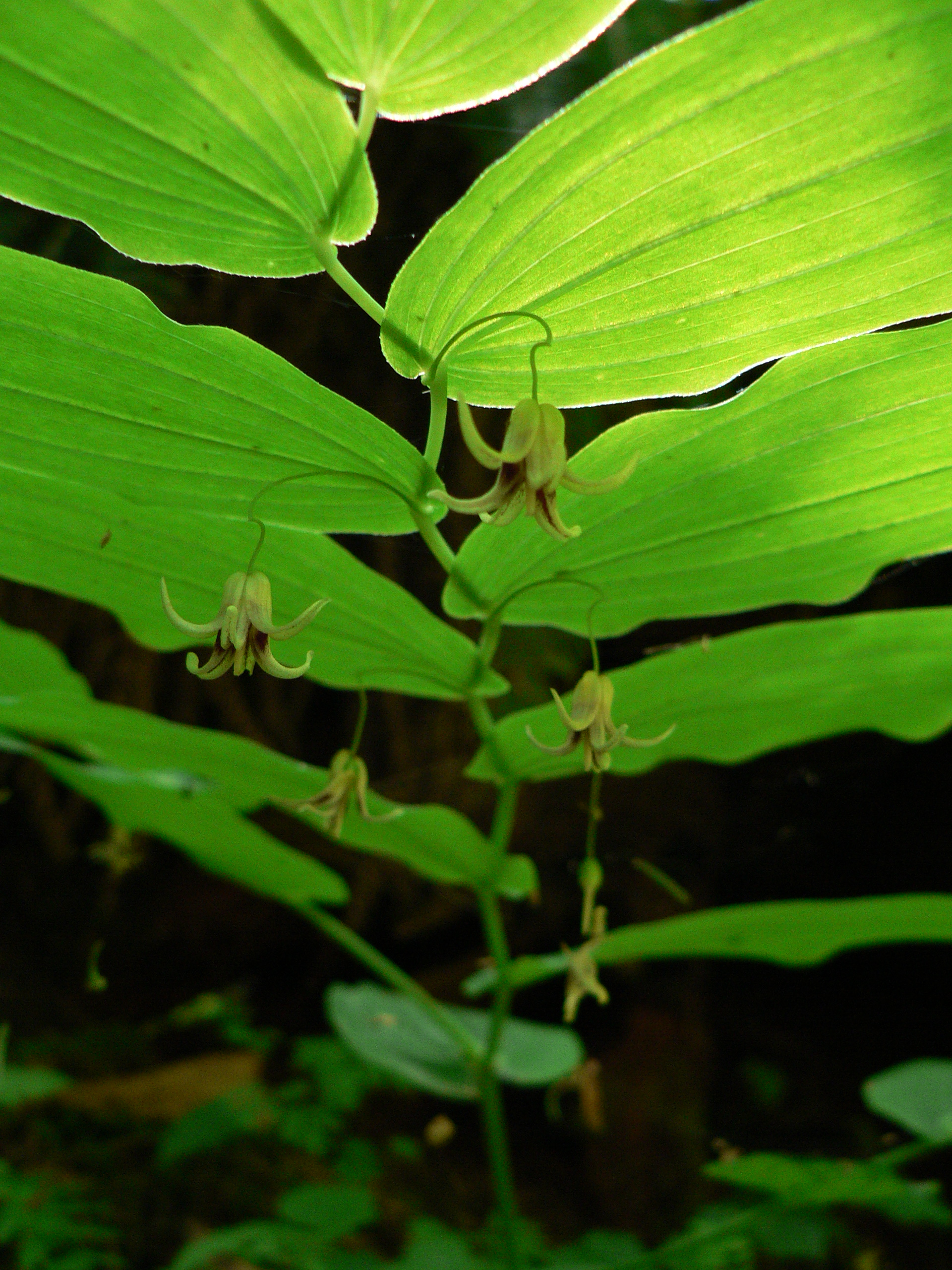 Clasping Twistedstalk, Claspleaf Twistedstalk